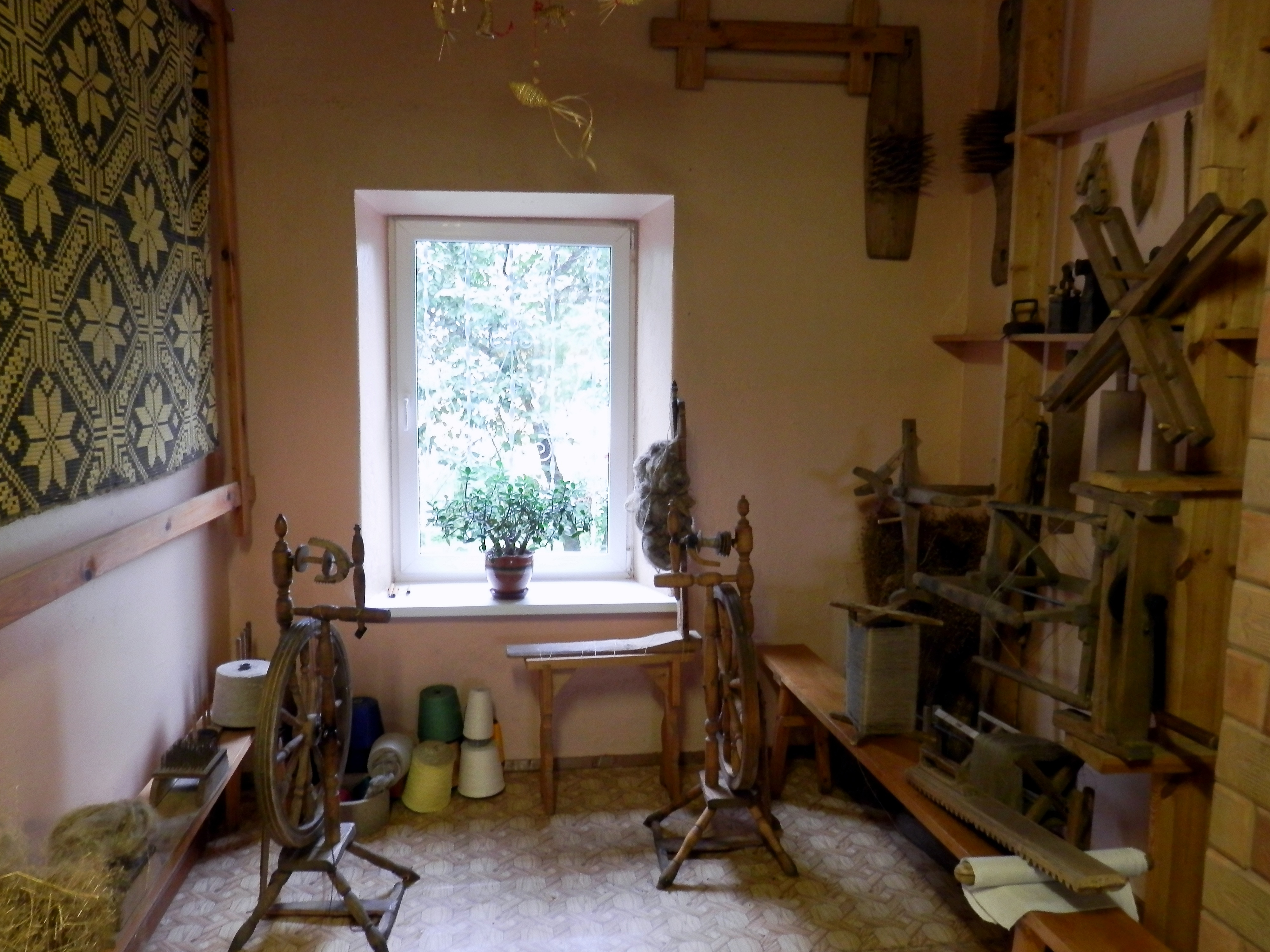 Museum in Ivianiec (Belarus)